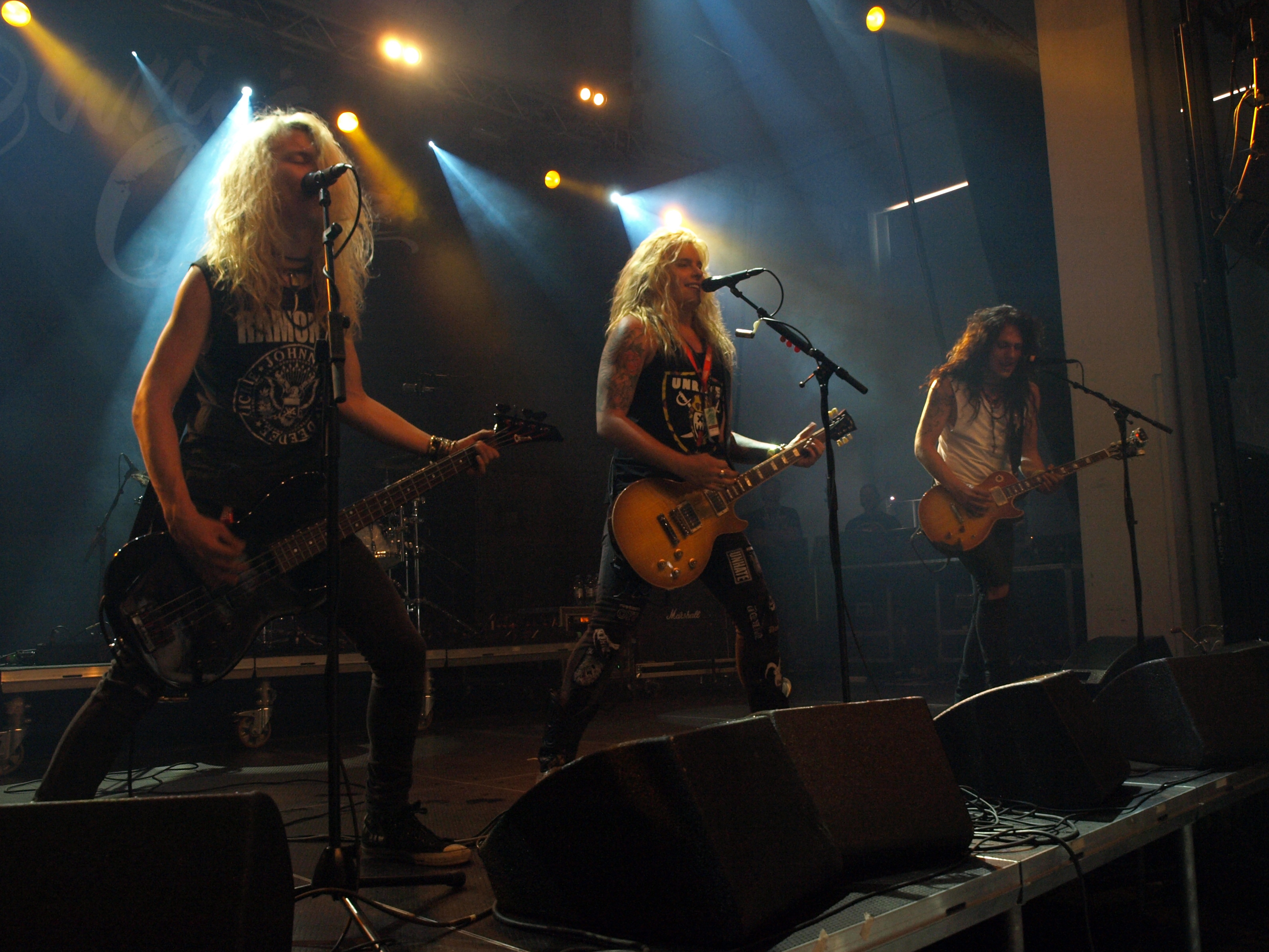 Finnish band Santa Cruz at Tuska Open Air 2013